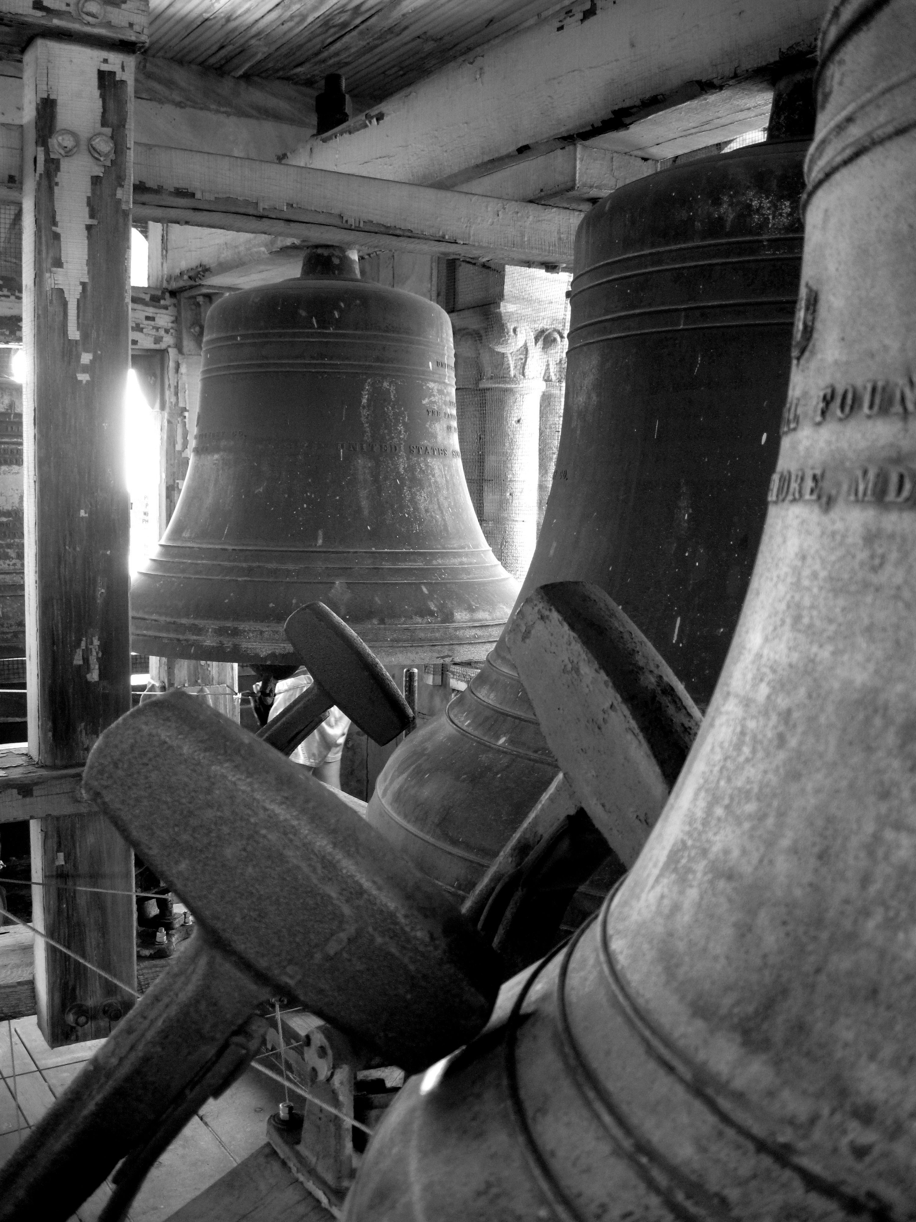 Altgeld Hall, University of Illinois, University of Illinois campus, corner of Wright and John Sts. Urbana